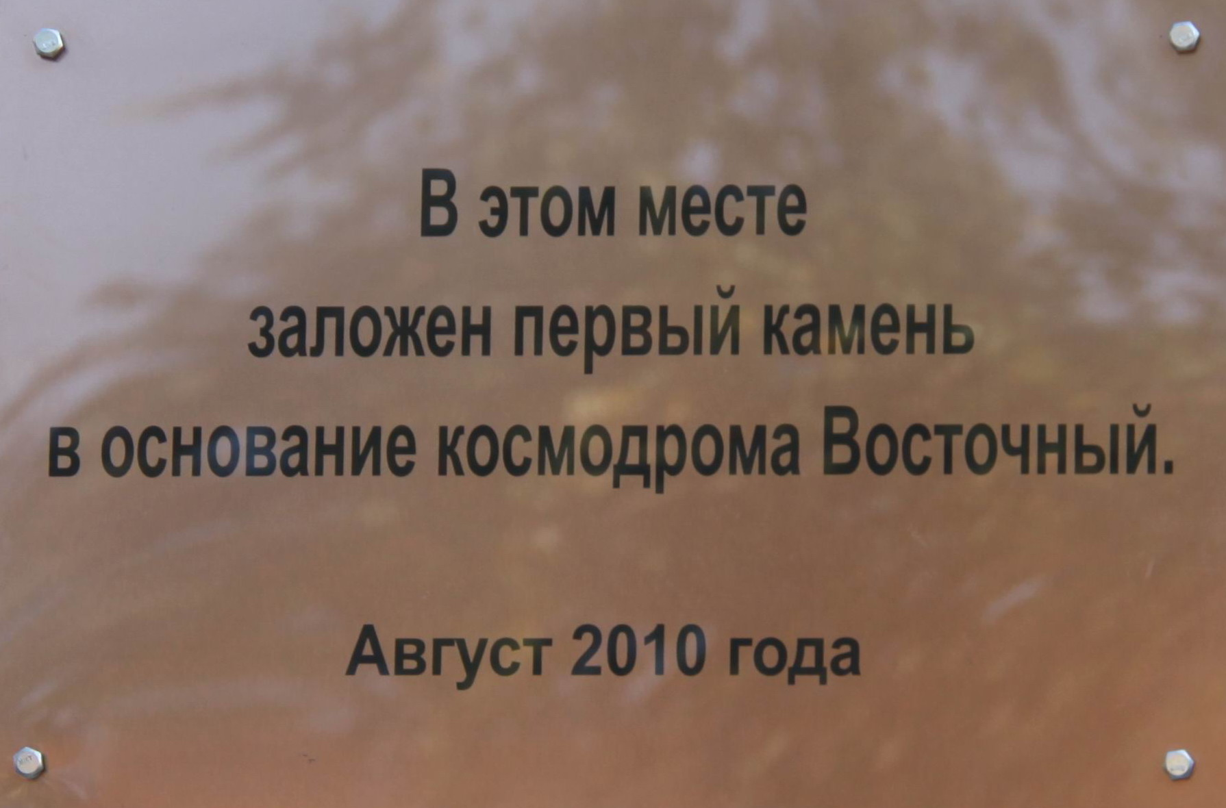 Memorable sign of the beginning of construction of Spaceport open Head of Government Prime Minister Vladimir Putin in August 2010